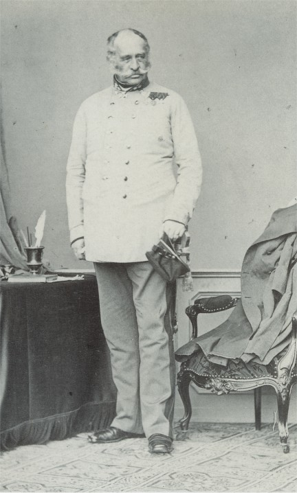 The austrian field marshall Maximilian Freiherr von Wimpffen